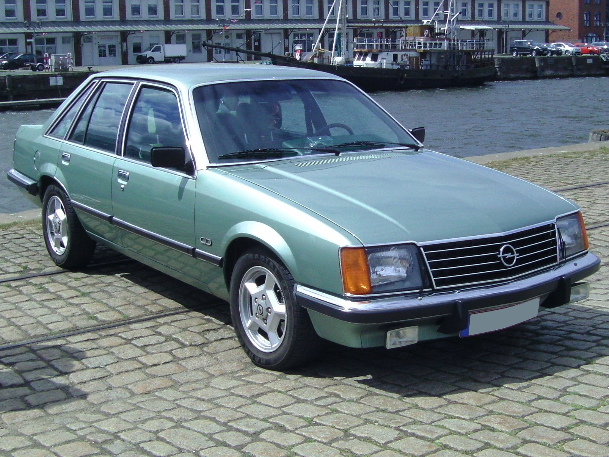 An Opel Senator A1 3.0 CD as built between November 1979 and May 1981.